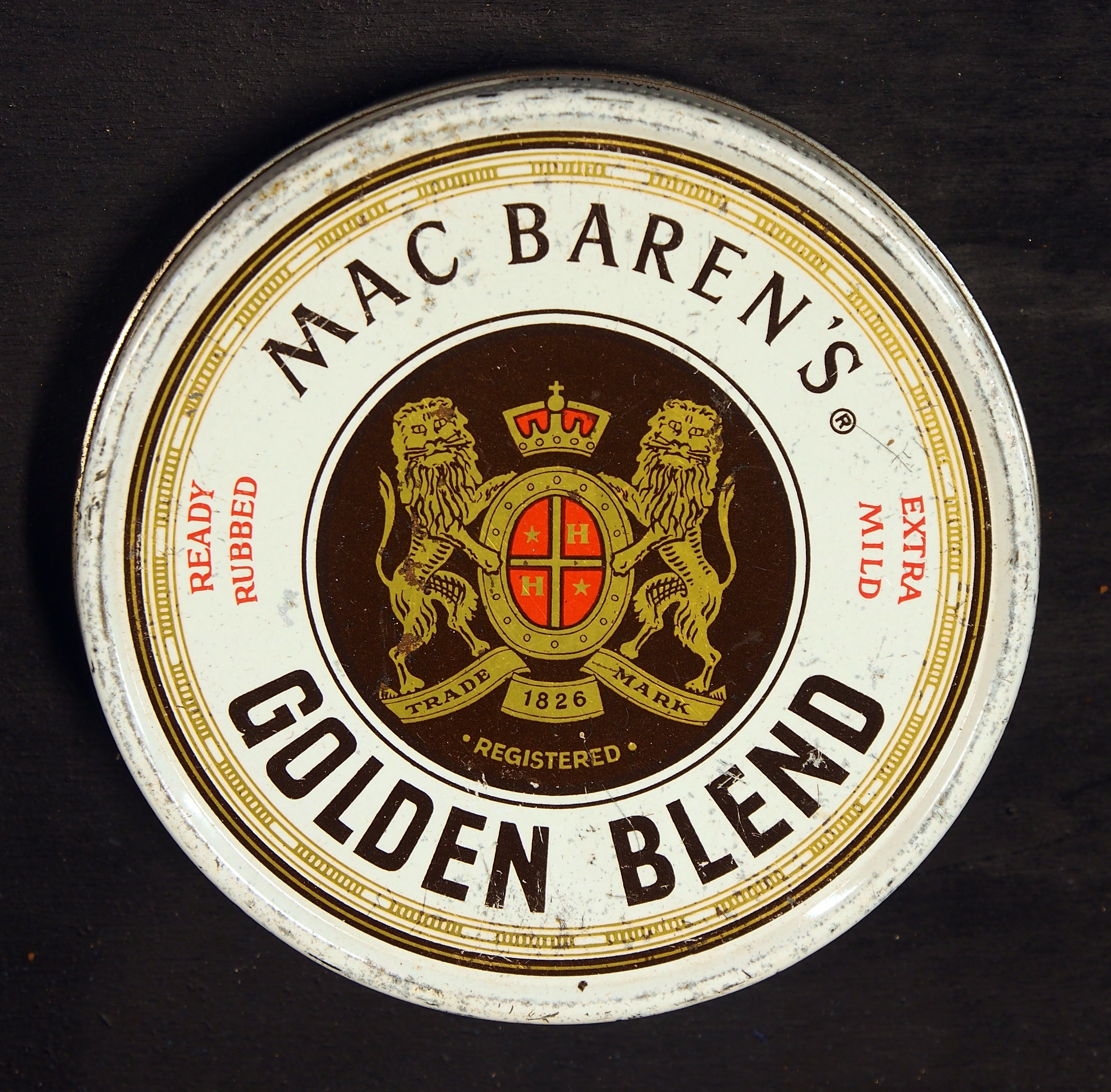 Old product not sold anymore!